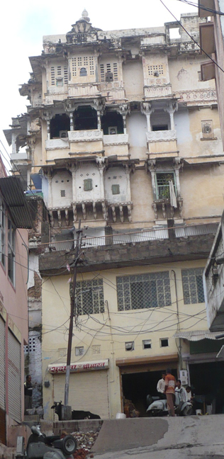 Karjali Haveli in Motichohta, Udaipur